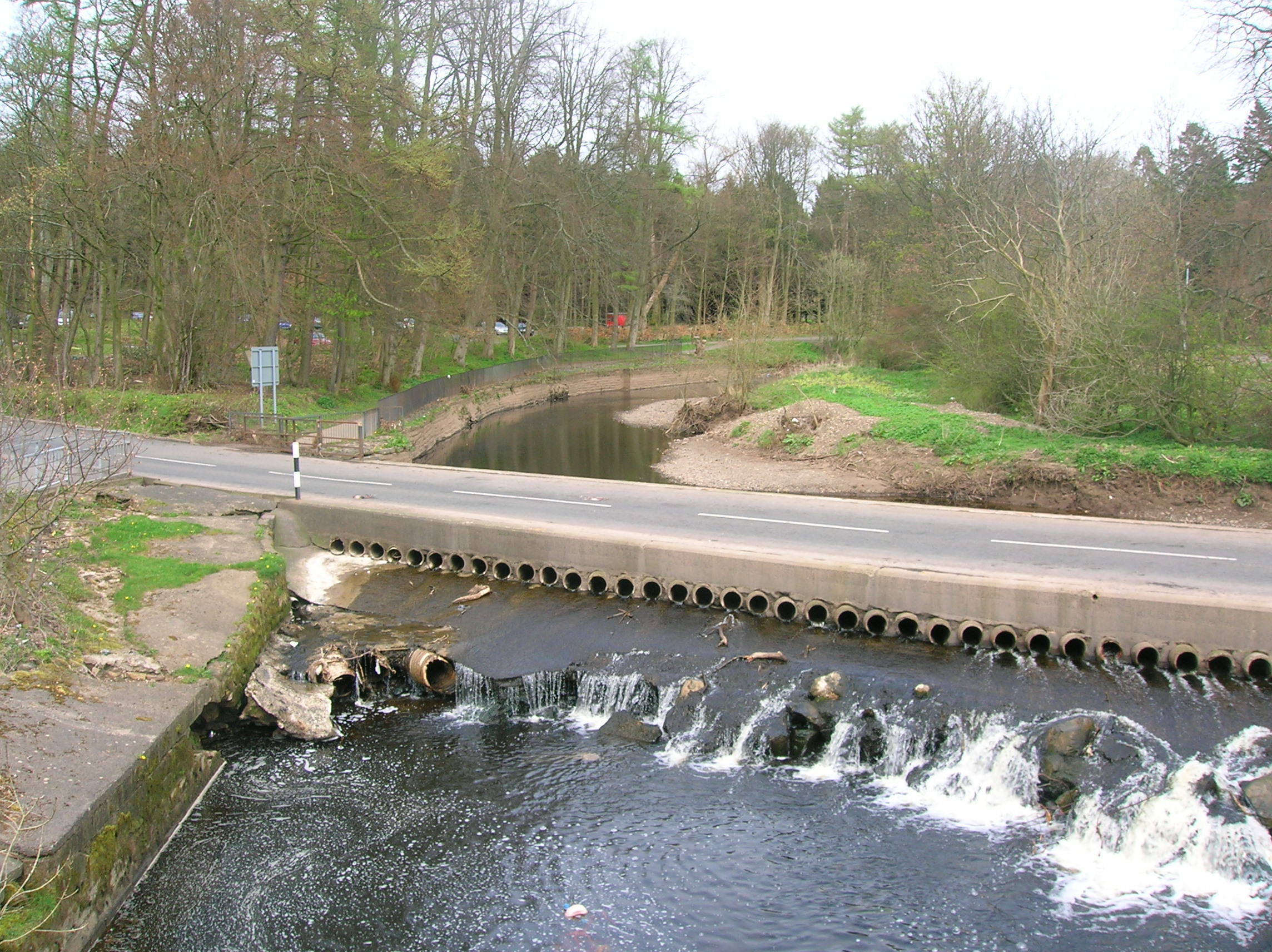 The Dean Ford over the Kilmarnock Water in Kilmarnock, East Ayrshire, Scotland. 2007.